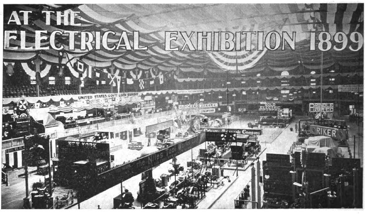 Photo from the May 1899 NELA semi-annual convention held at Madison Square Gardens in New York City